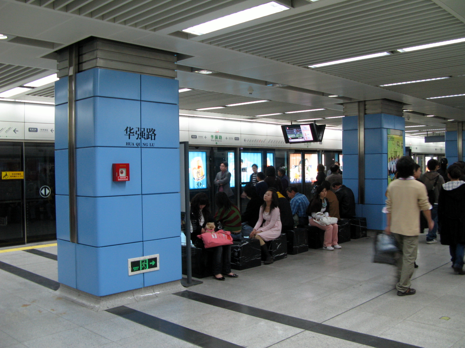 ShenZhen Metro Hua Qiang Lu Station Platform